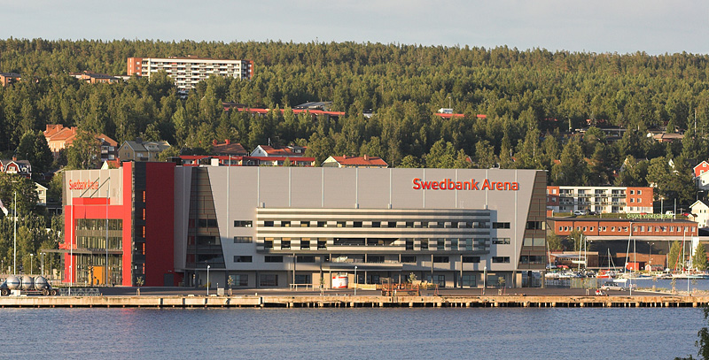 Swedbank Arena, View from the bay